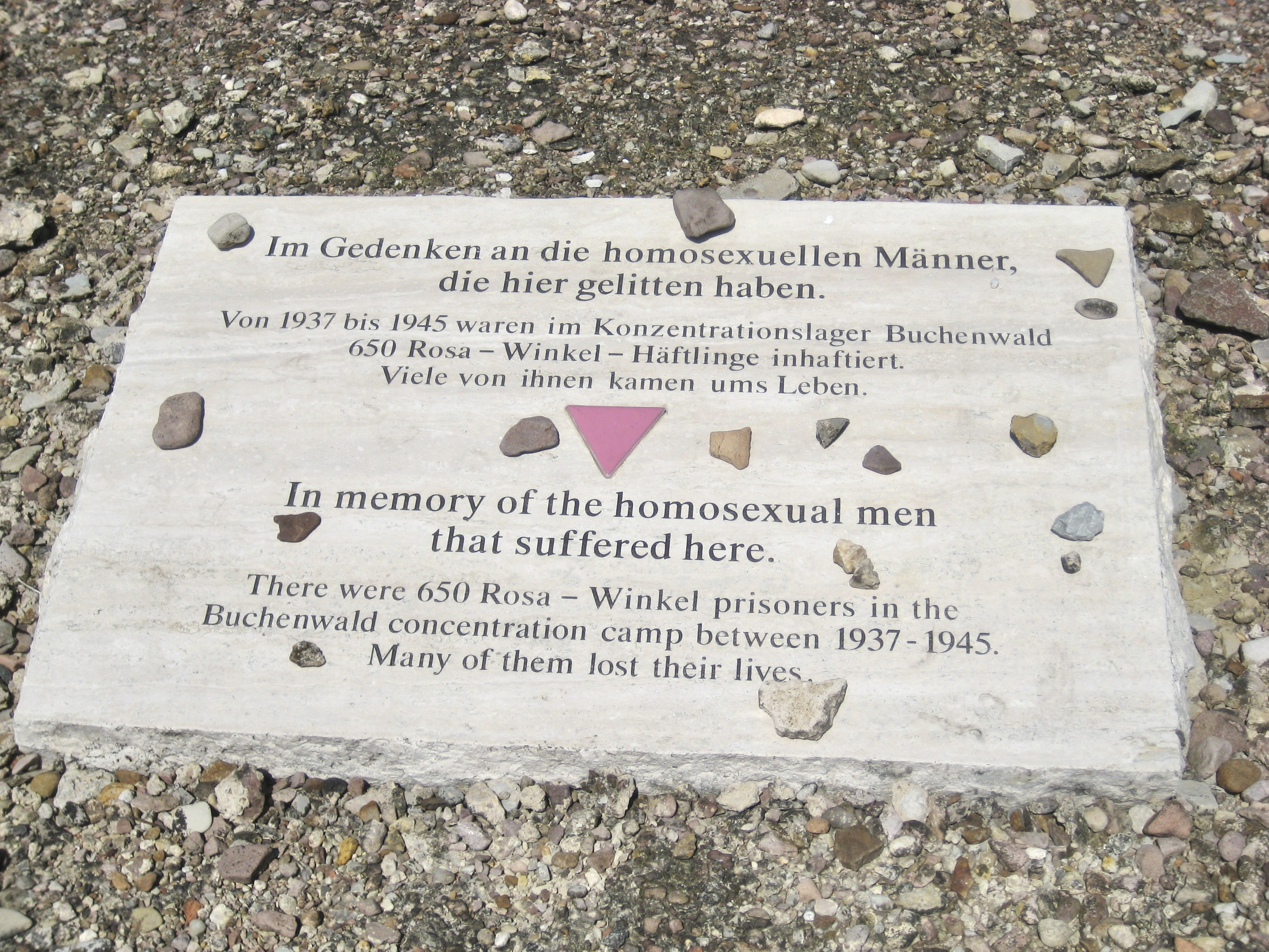 Memorial plaque of the homosexual prisioners in Buchenwald concentration camp